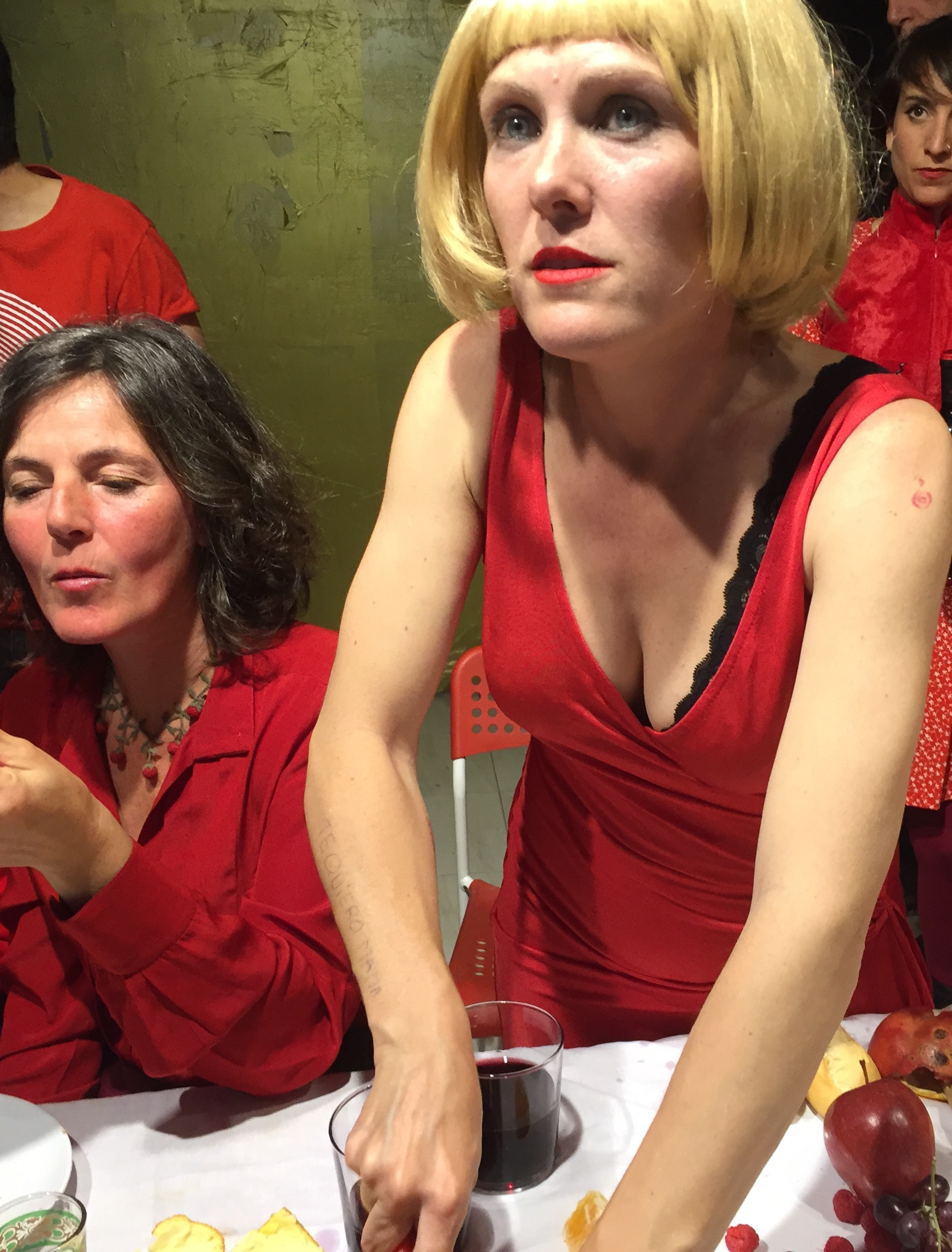 in april 2019, she made a colaborative performance with 12 artists representing the Last supper from Leonardo Da Vinci